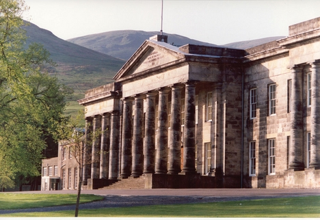 Dollar Academy, 1818